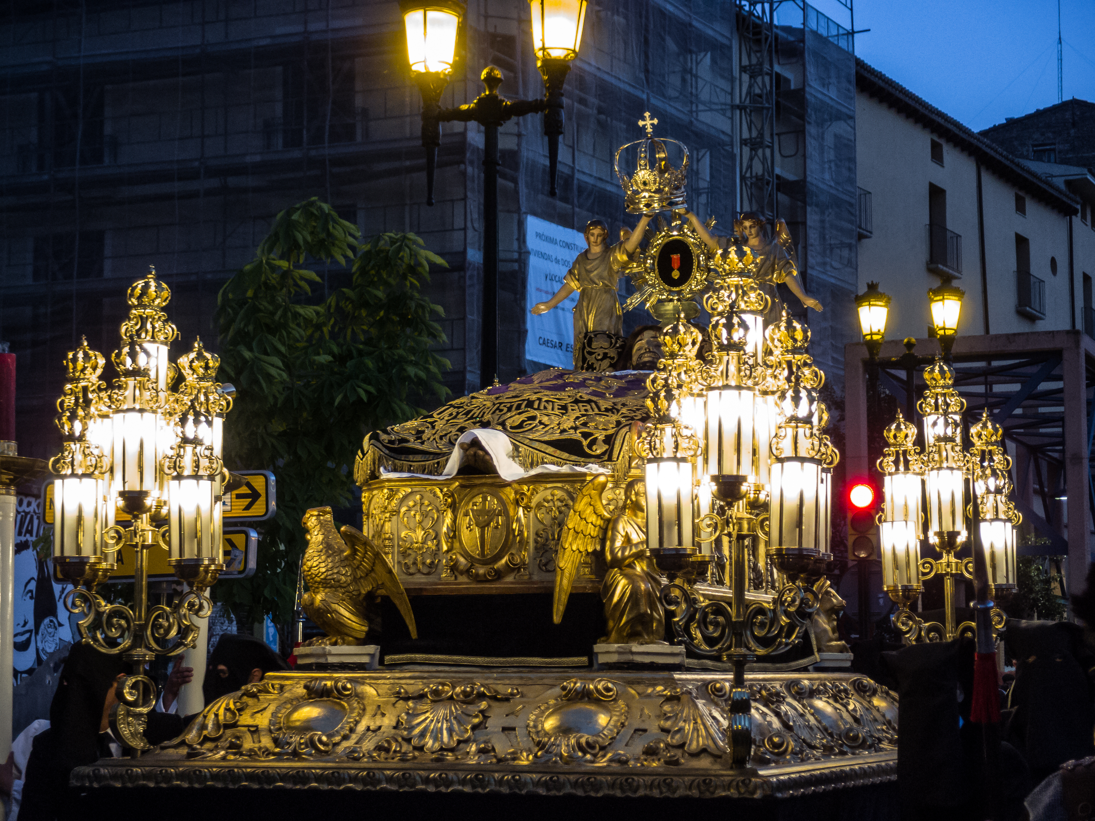 This is a photography of a Folklore festival in Spain (Wikidata id Q9075892).